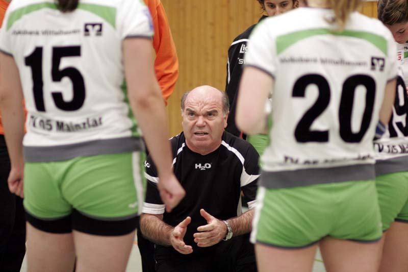 Jürgen Gerlach, on November 12th 2006 in Bensheim, during a team time-out in the match HSG Bensheim/Auerbach - TV Mainzlar (2nd German Divison).